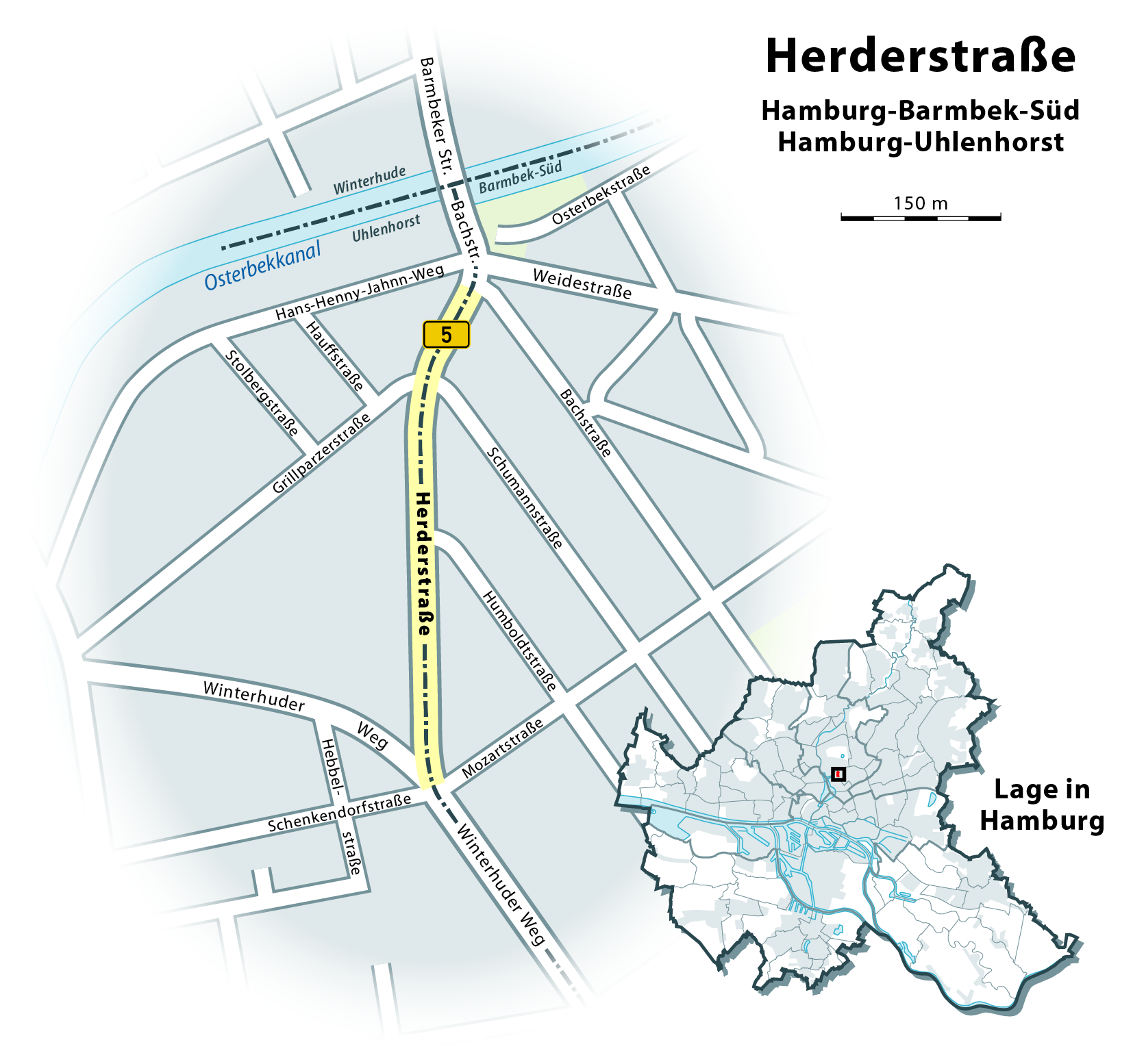 Map of Herderstraße, Hamburg